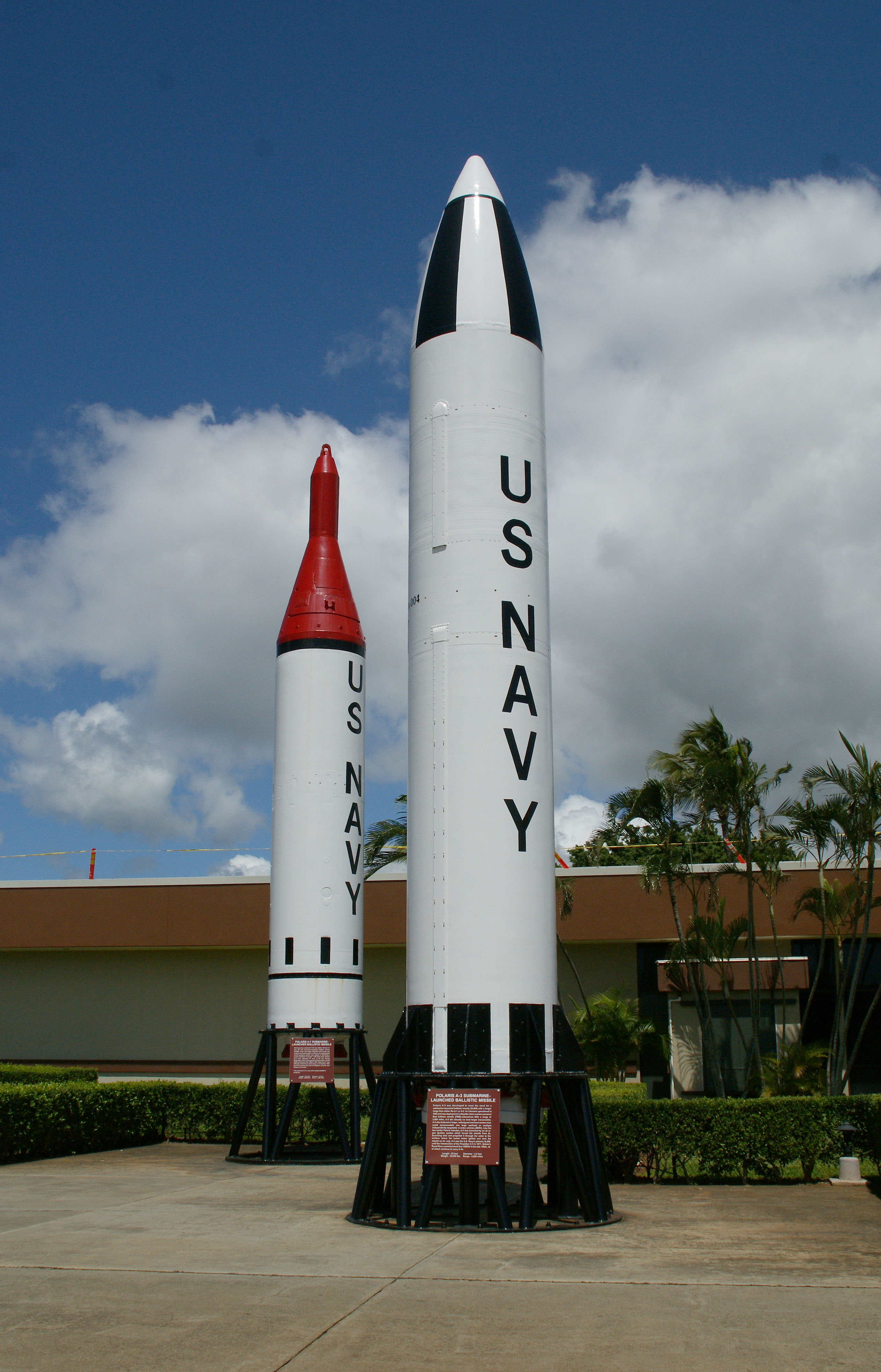 Location: USS Bowfin Submarine Museum, Honolulu, Hawaii. Left: Polaris A-1 Submarine launched ballistic missile (SLBM). Caption on display reads “This particular A-1 is one of the oldest SLBMs in existence. Right: Polaris A-3 SLBM. Caption on display had only generic A3 information.